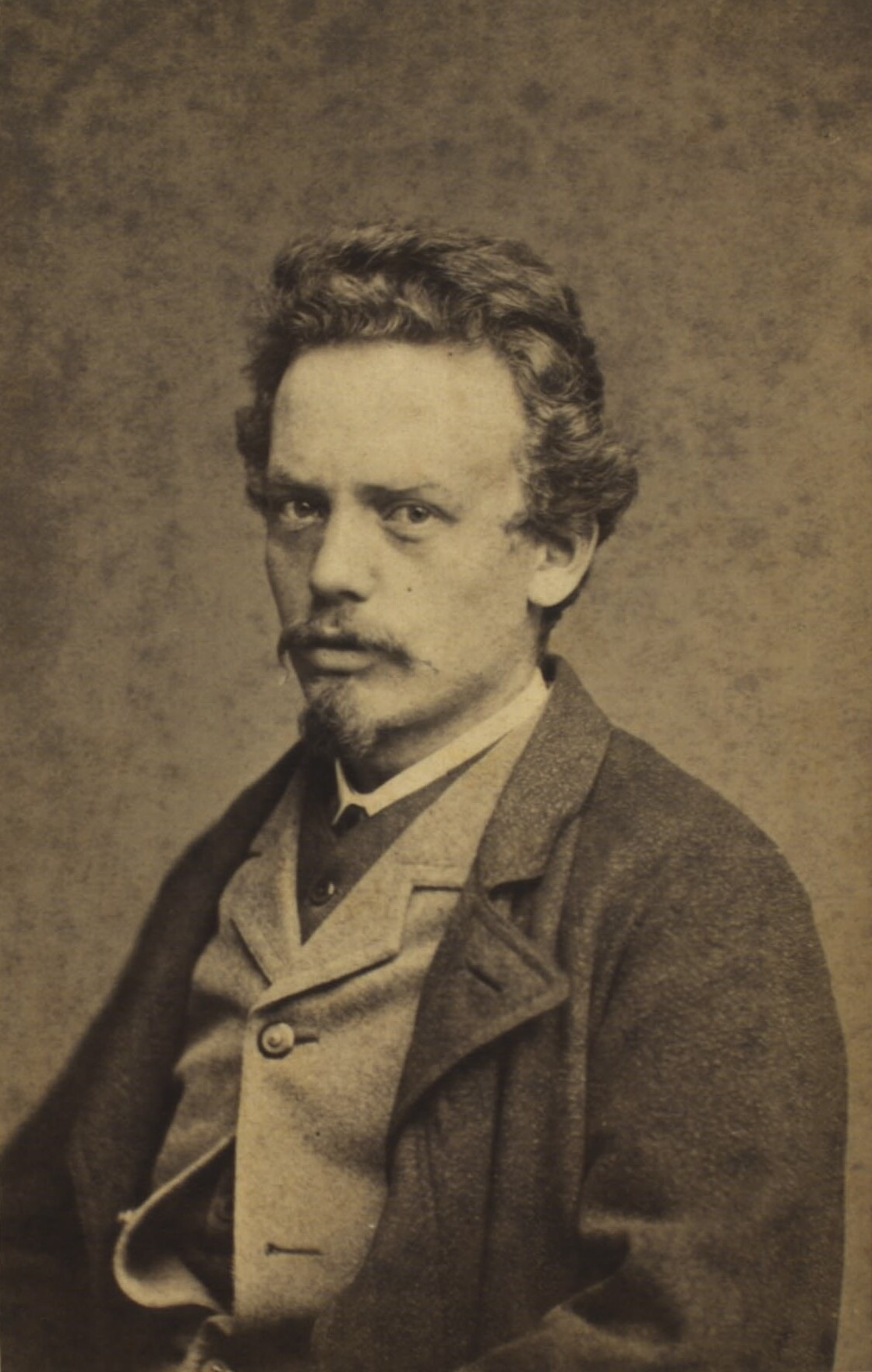 Jens Erik Carl Rasmussen (1841-1893), Danish marine painter